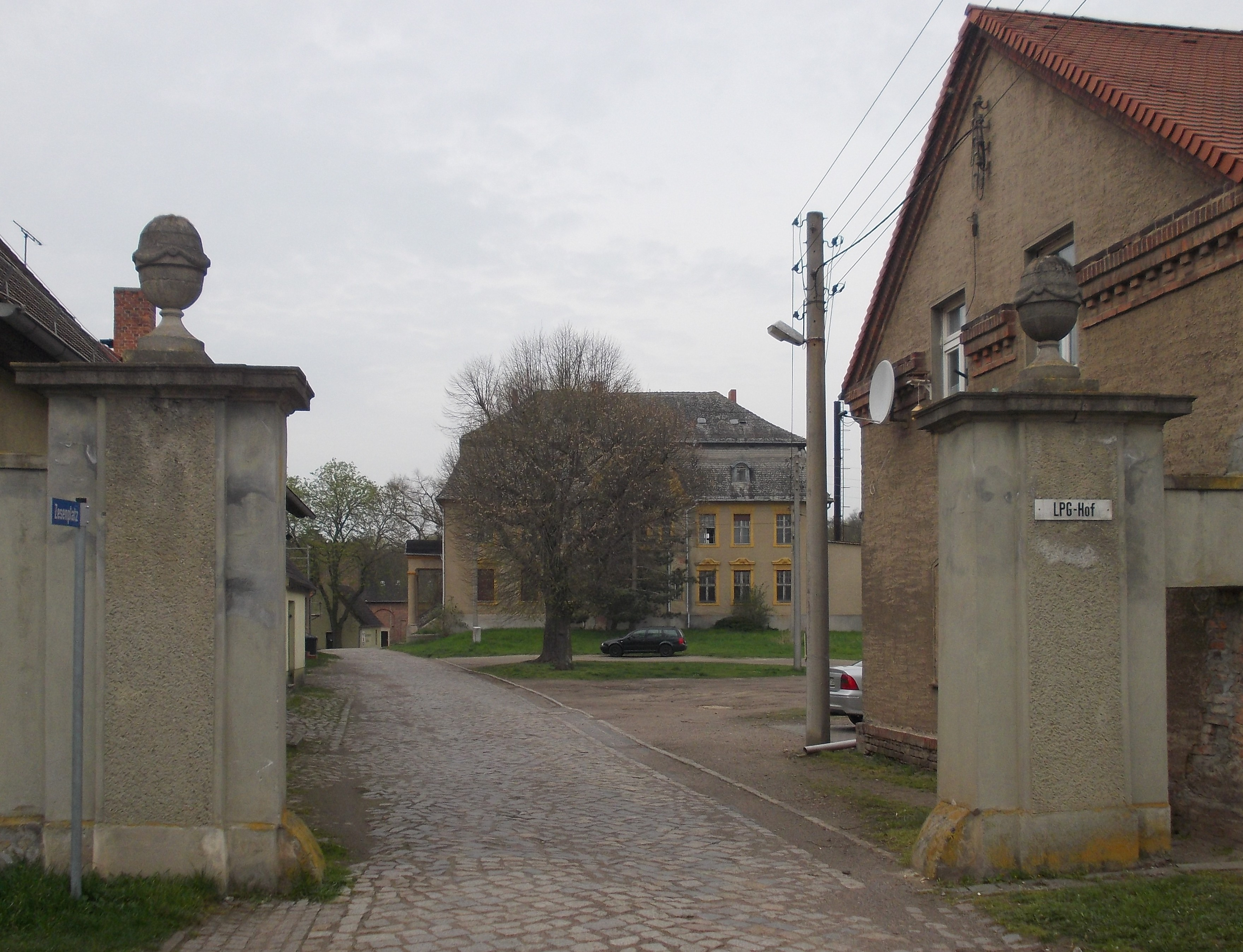 Priorau manor house (Raguhn-jessnitz, Anhalt-Bitterfeld district, Saxony-Anhalt)